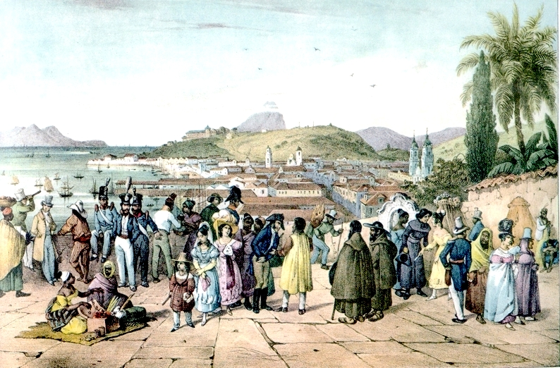 View of Rio de Janeiro from the church of the monastery of São Bento (Saint Benedictus).